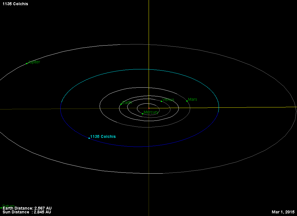 1135 Colchis orbit and his position on 01 Mar 2015 (NASA Orbit Viewer applet)